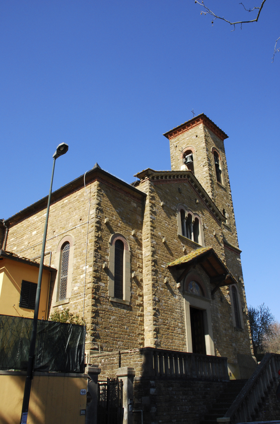 Church of Santa Lucia at Galluzzo, Florence, Italy. Overview from Via del Podestà.